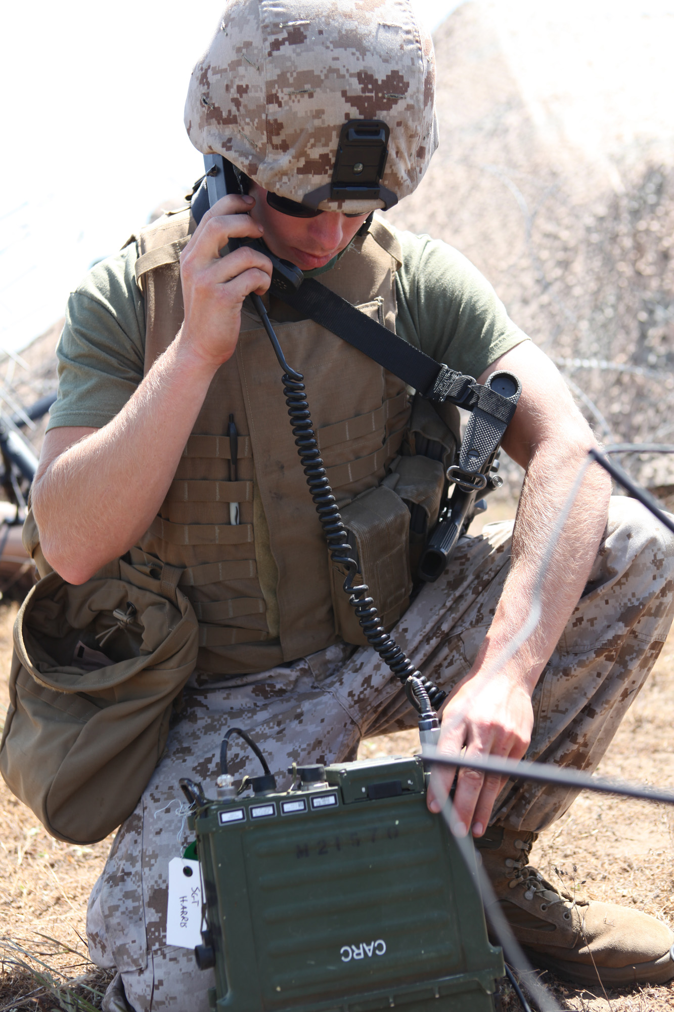 Lance Cpl. Justin Williams, a special intelligence system administrator and communicator with 1st Radio Battalion, I Marine Expeditionary Force, performs a radio check with a 117-F radio during a communication exercise here, May 25. All aspects of radio were utilized in the exercise, including line of sight transmitting, satellite and short wave transmissions.